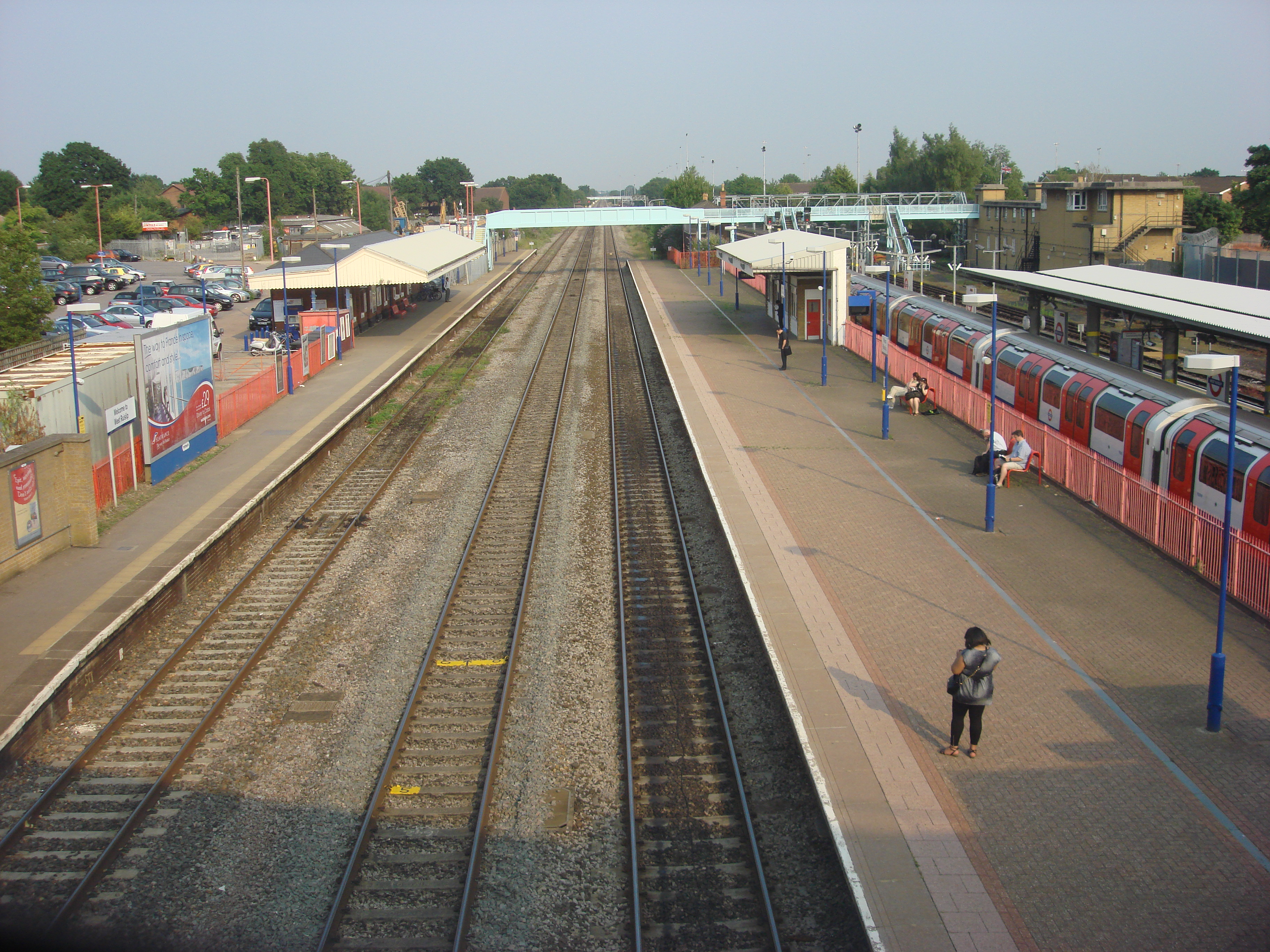 West Ruislip station